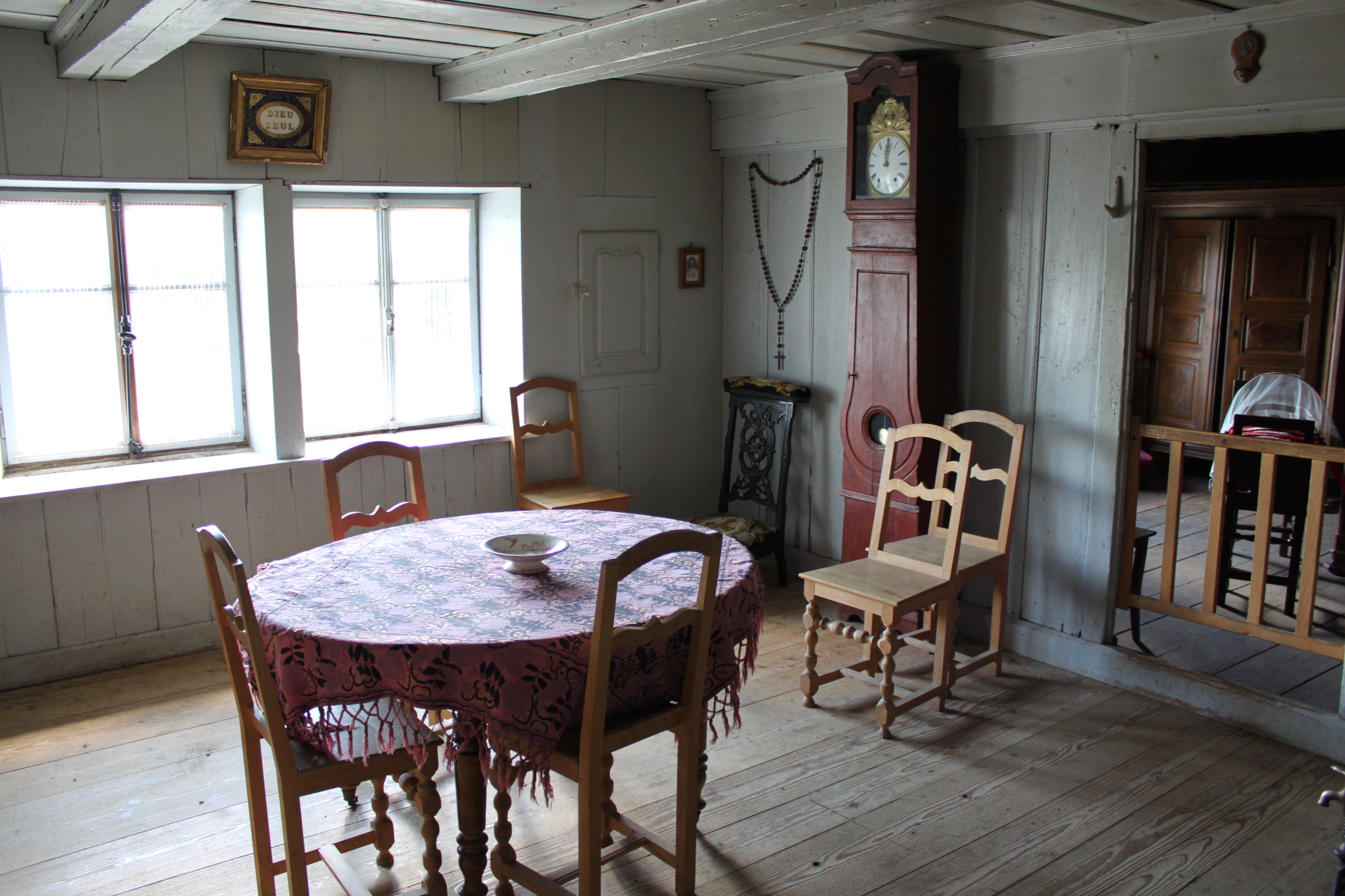 Maisons Comtoises de Nancray, France